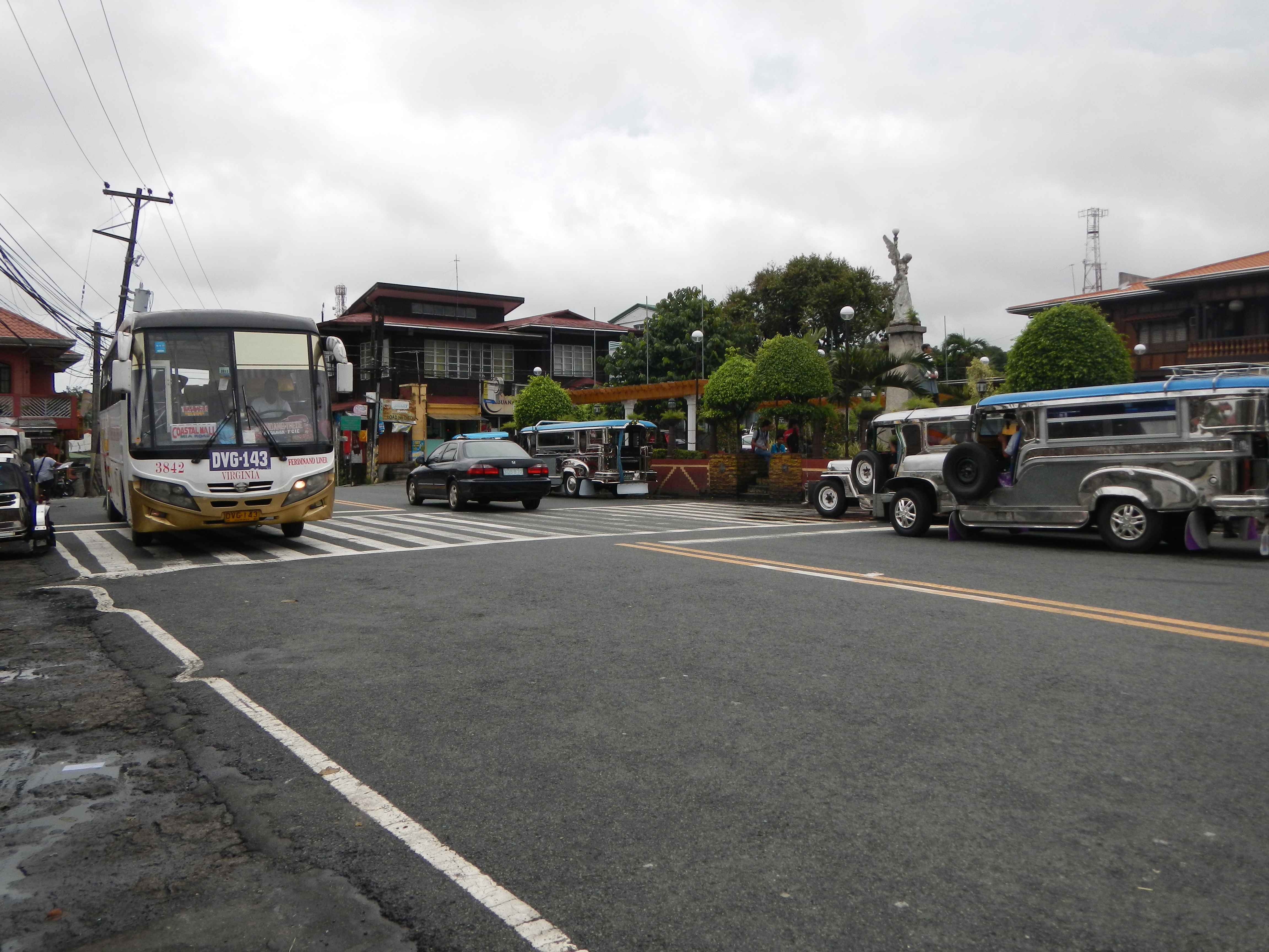 Indang–Alfonso Road from Barangays Poblacion 1, 2, 3 & 4 14°11'51"N 120°52'36"E Indang to Category:Barangays of Cavite Barangays Poblacion I, II, III, IV & V, Alfonso, Cavite 14.1373, 120.8574 Alfonso, Cavite Philippine highway network